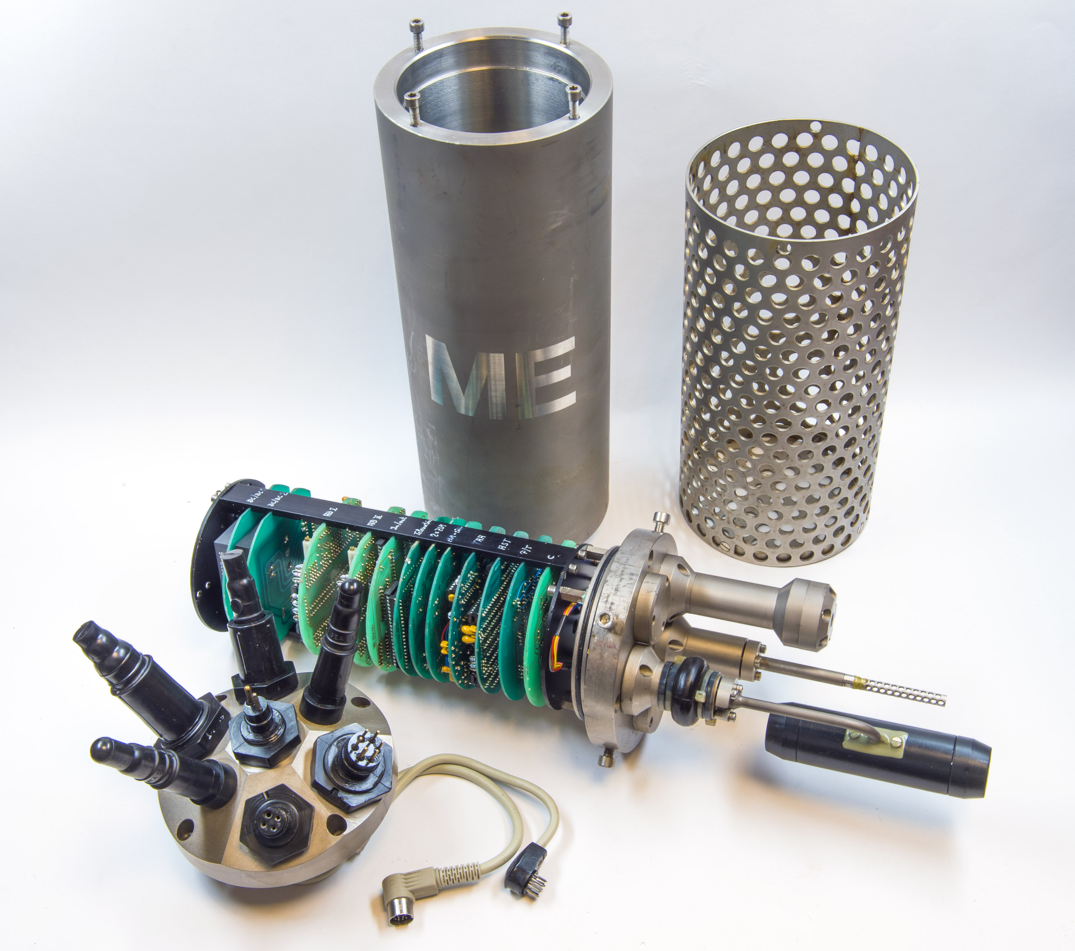 Parts of a CTD (Conductivity, Temperature, Depth), disassembled. Oceanographic device to determine water masses in the oceans from research vessels: - electronic interieur with sensors for condcutivity, temperature and pressure. Manufactured by ME GRISARD GMBH in the 1980th (?). - cage to protect sensors - water tight conectors - housing for high water pressure